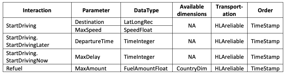 Sample HLA parameter table according to IEEE 1516-2010